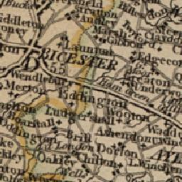 Shows Bicester and Edgecott at the time of 1806, England.